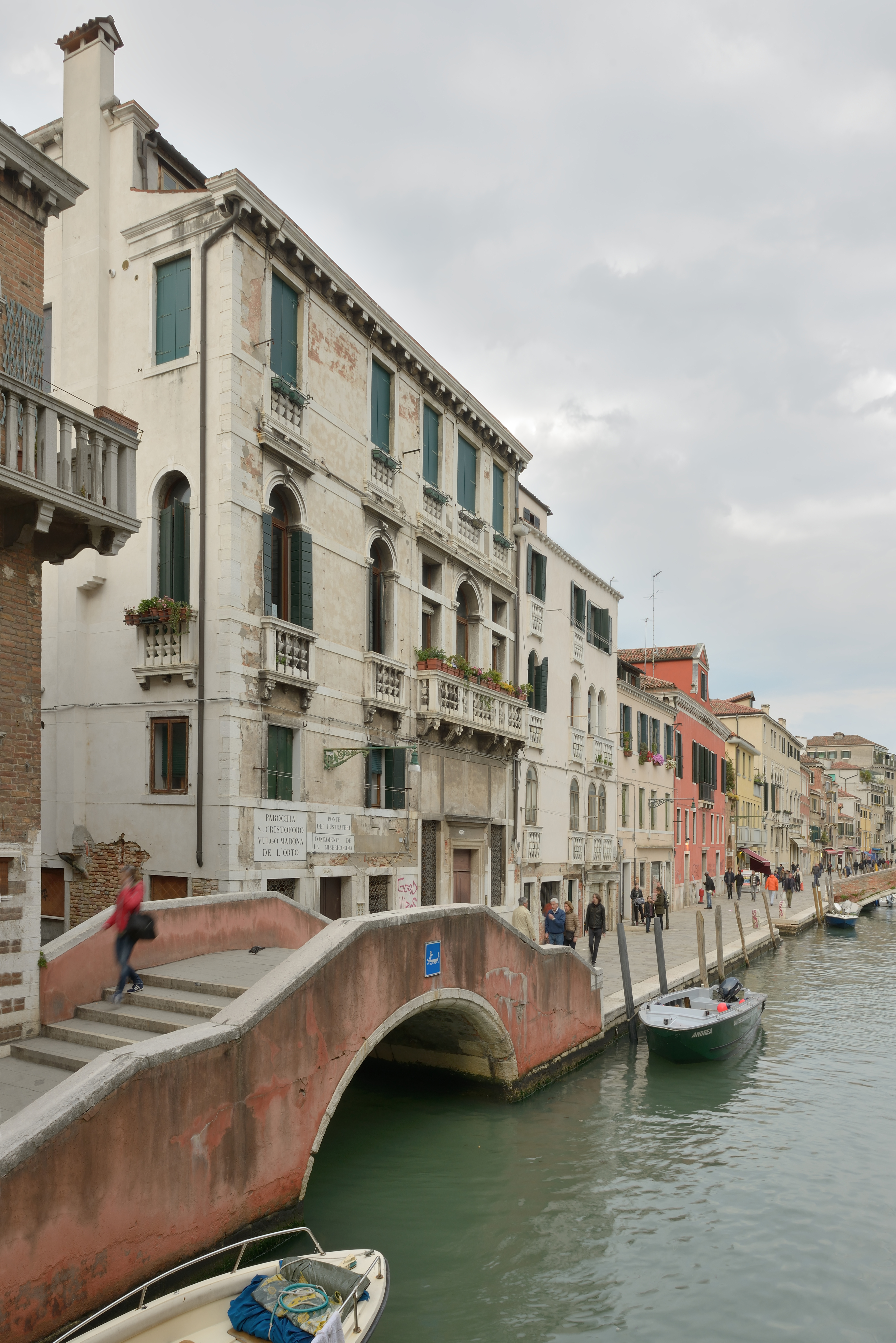 Ca'Caotorta on the Rio de la Misericordia canal in Venice. View from the ponte de l'Aseo bridge.